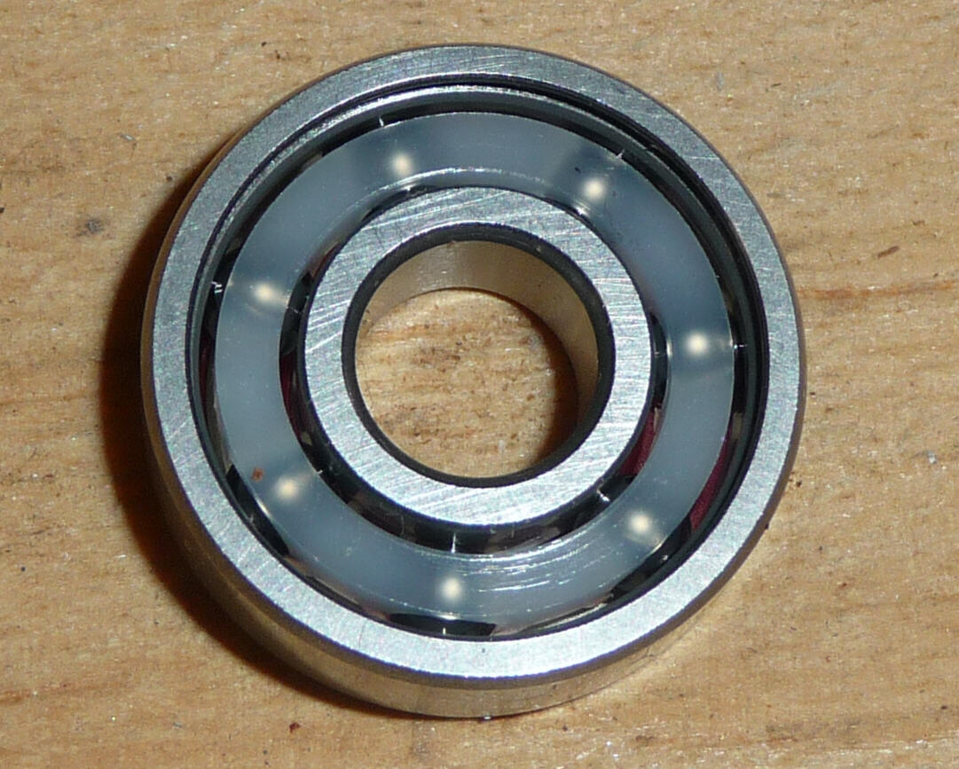 Ball Bearing with a semi transparent cage